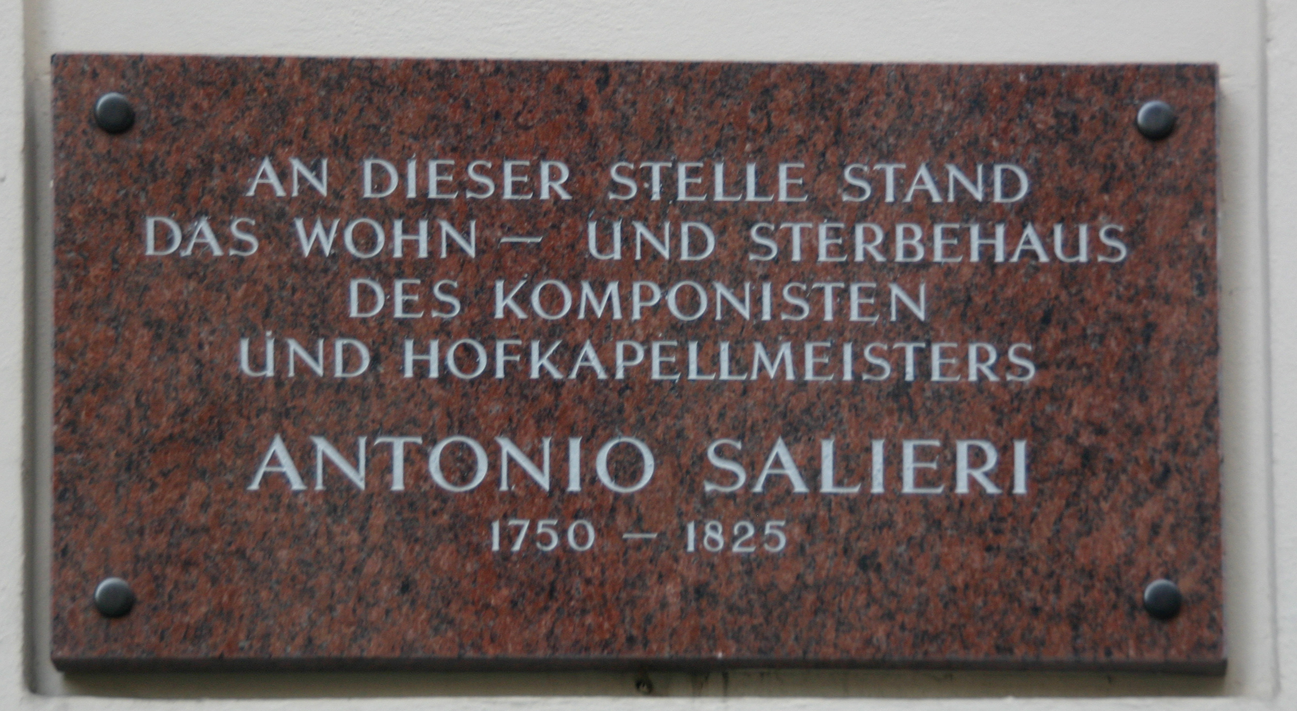 Plaque in Vienna